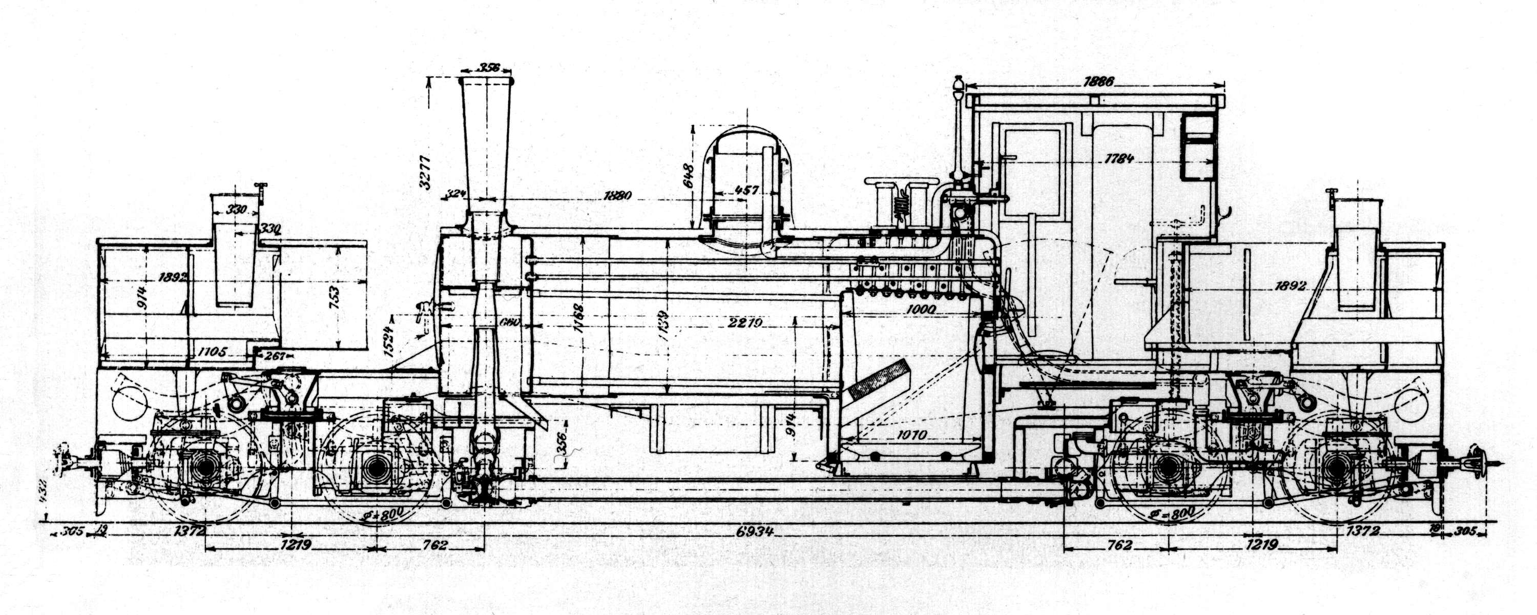 Beyer, Peacock and Company works drawing of the K1, the world's first Garratt articulated steam locomotive, which the company built for the Tasmanian Government Railways. Measurements in millimetres.